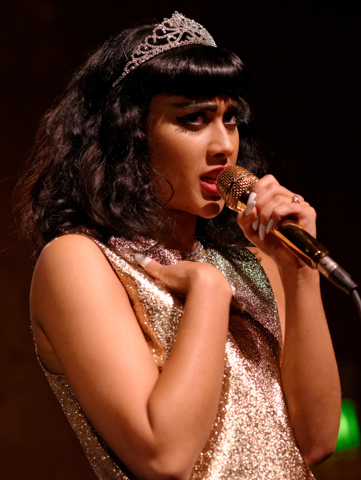 Natalia Kills performing live at the Bootleg Bar in Los Angeles California on Sunday February 16th, 2014. Part of the #THENEWNEW artist residency presented by Filter Magazine and Revolve Clothing.